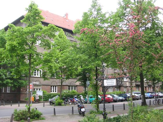 The "Schramblock" in Berlin-Wilmersdorf located at the corner of Hildegardstreet and Schrammstreet